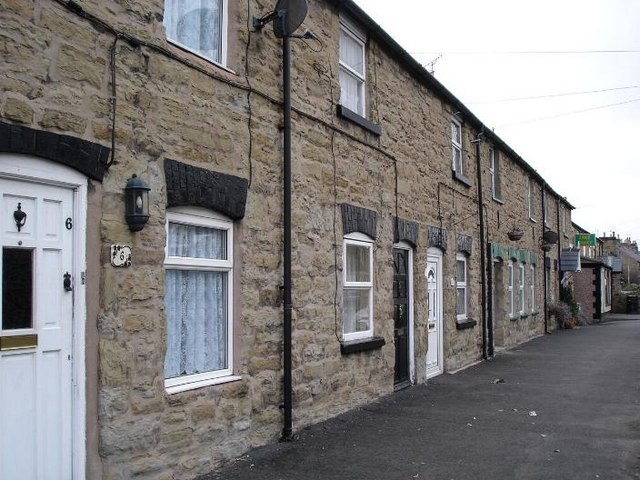 Cottages at Ffynnongroyw. Stone cottages on the main road through the village which were once homes to the miners from the nearby colliery